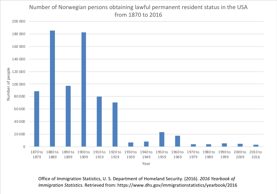 A graph using data from the U. S. Office of Immigration statistics to show trends in Norwegian immigration to the U. S. A.